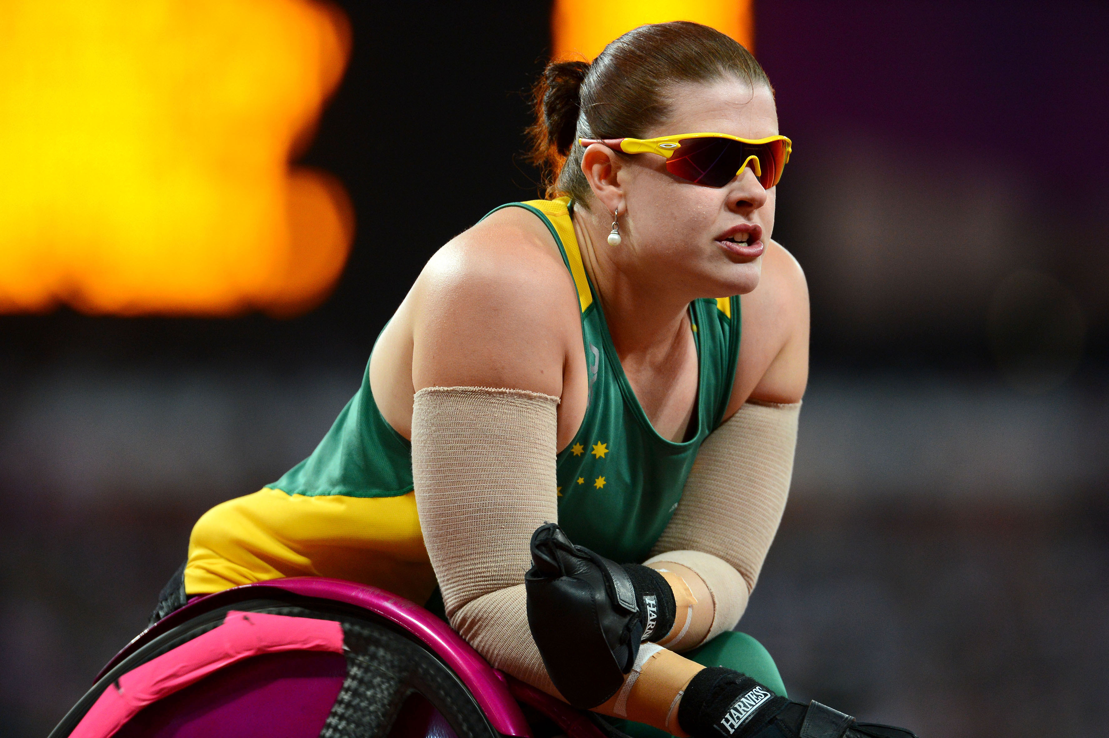 Photograph of Australian Paralympic team member Rosemary Little at the 2012 Summer Paralympic Games in London